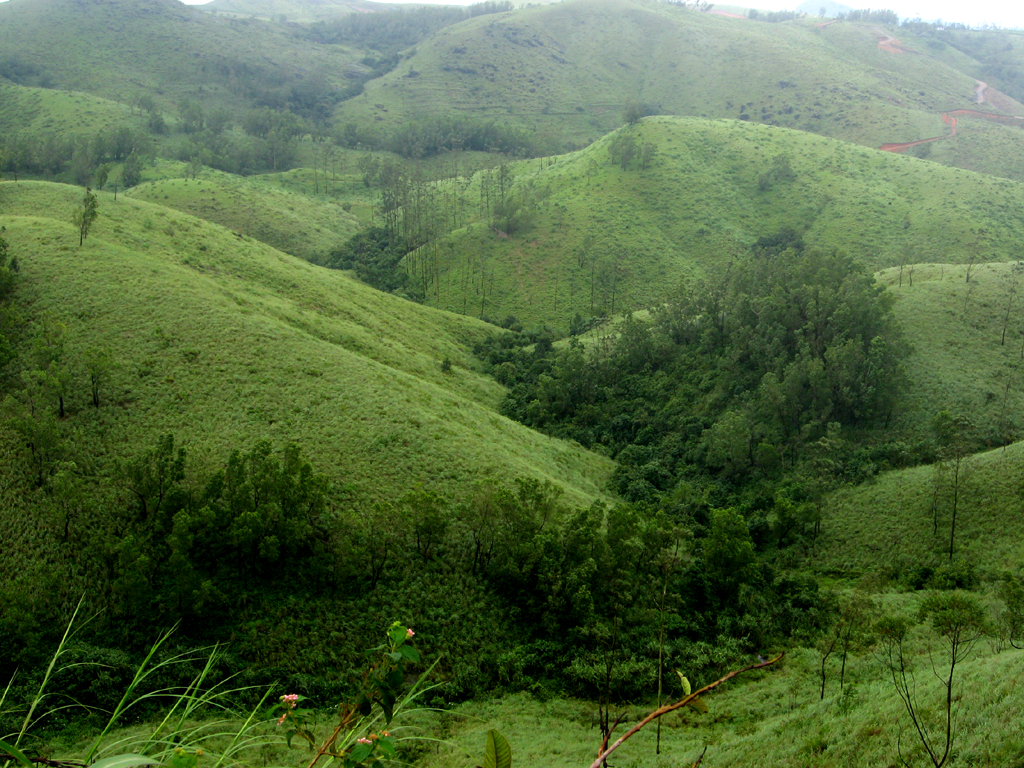 Rolling Meadows of Vagamon, Kerala,India a hill resort